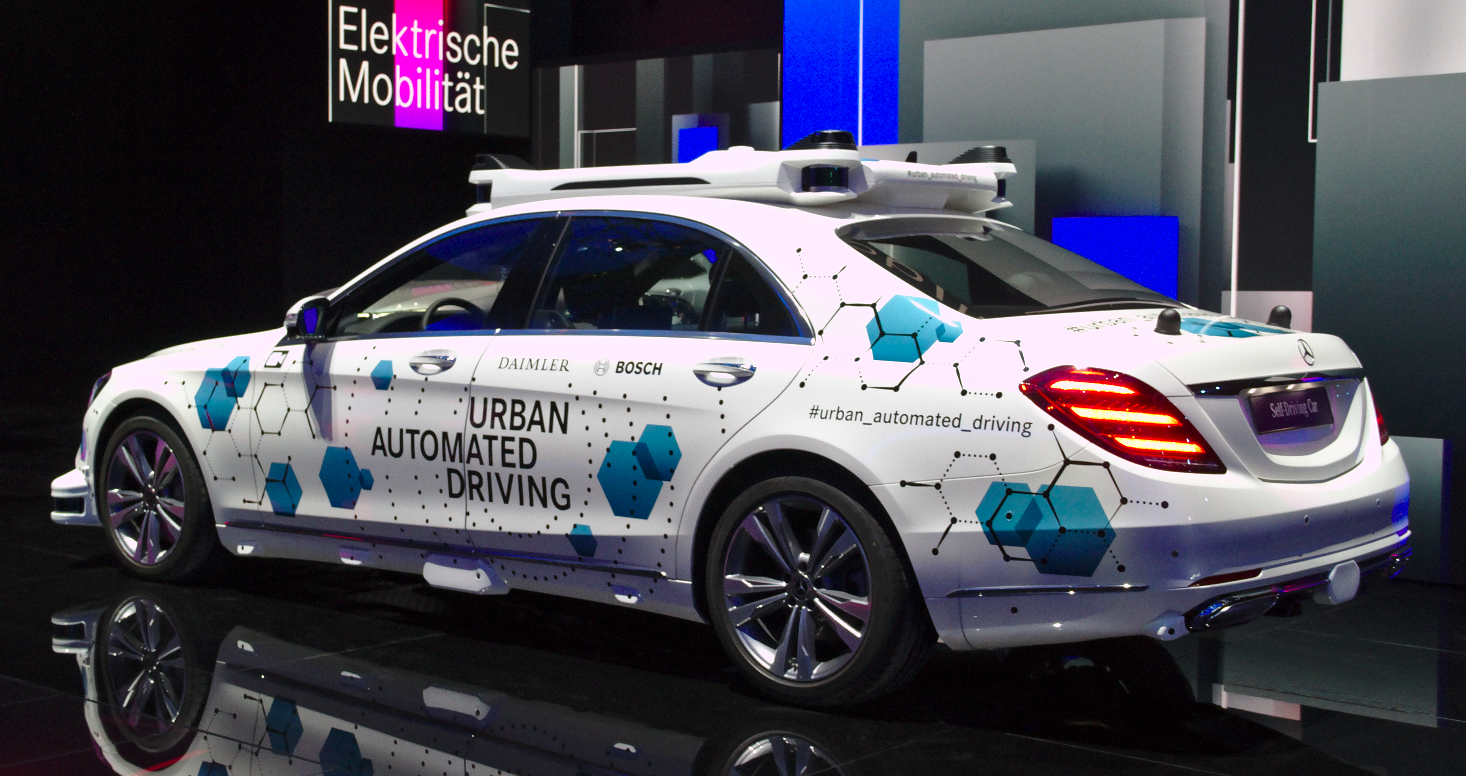 Mercedes-Benz_W222_Urban_Automated_Driving at IAA 2019